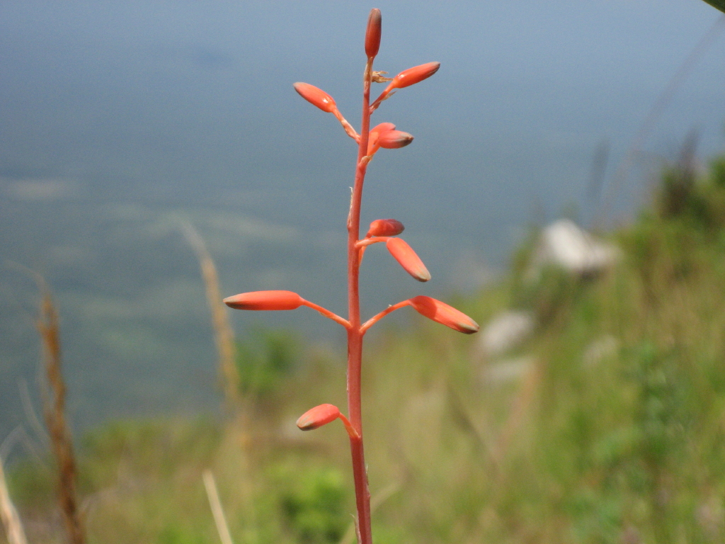 Aloe cannellii at the type location, Serra Mecuti, south of Chimoio town in Mozambique, 1500 m.a.s.